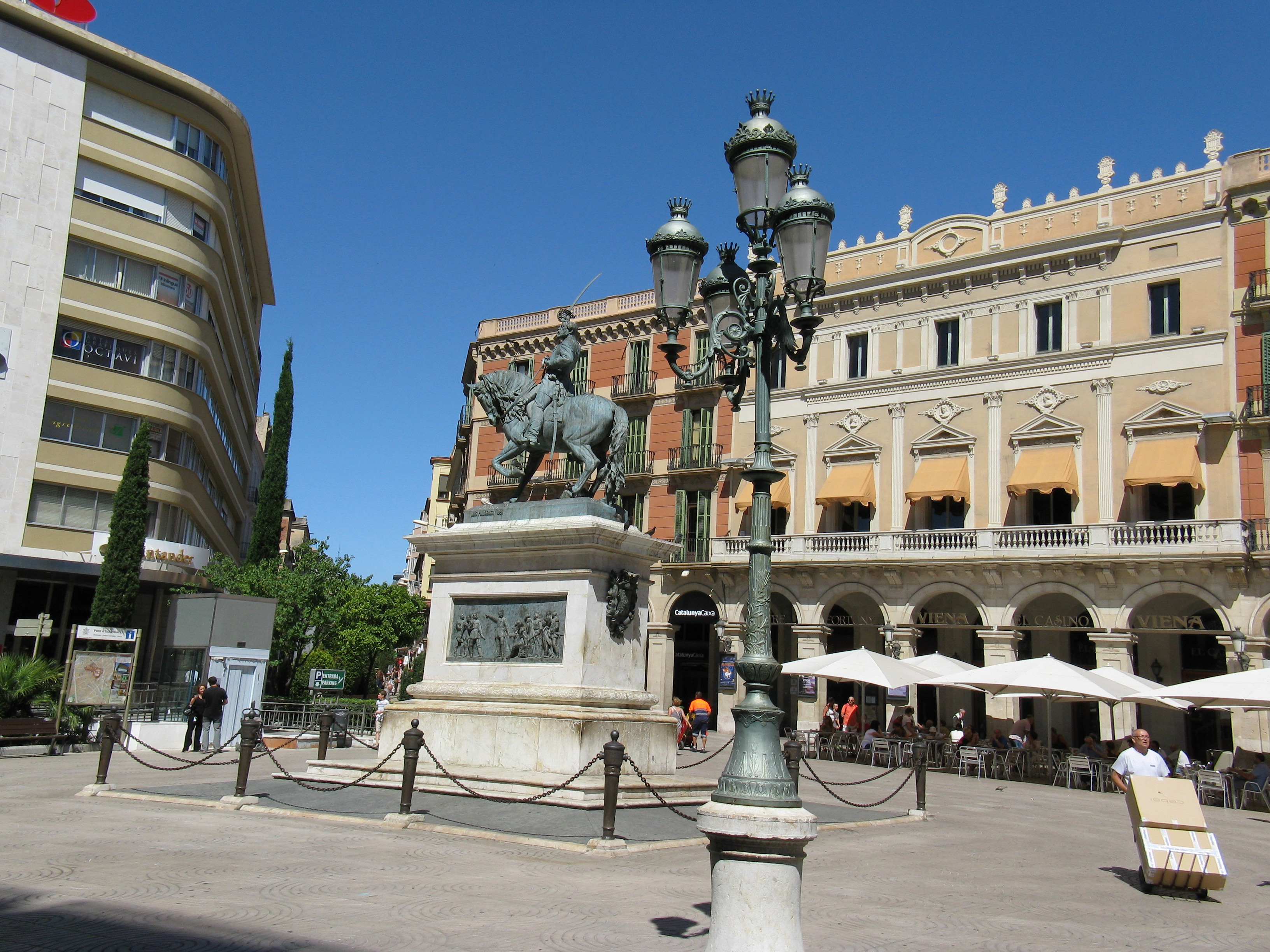 Monument of Joan Prim in Reus (Catalonia) in front of the "Teatre Fortuny"